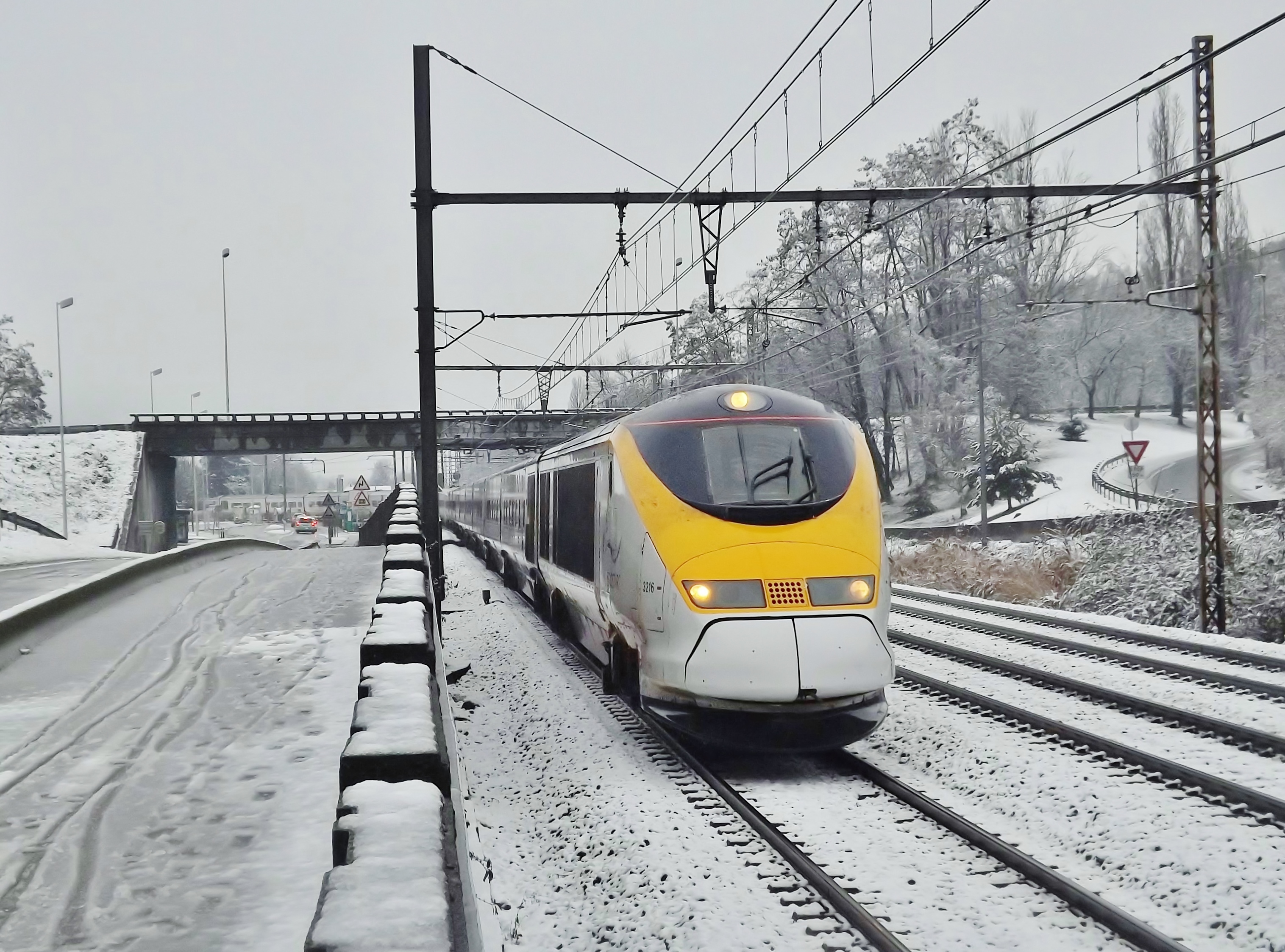 Sight of a 'Snow' Eurostar high speed train coming from London and bound for Bourg-Saint-Maurice, arriving at Chambéry in Savoie, France.